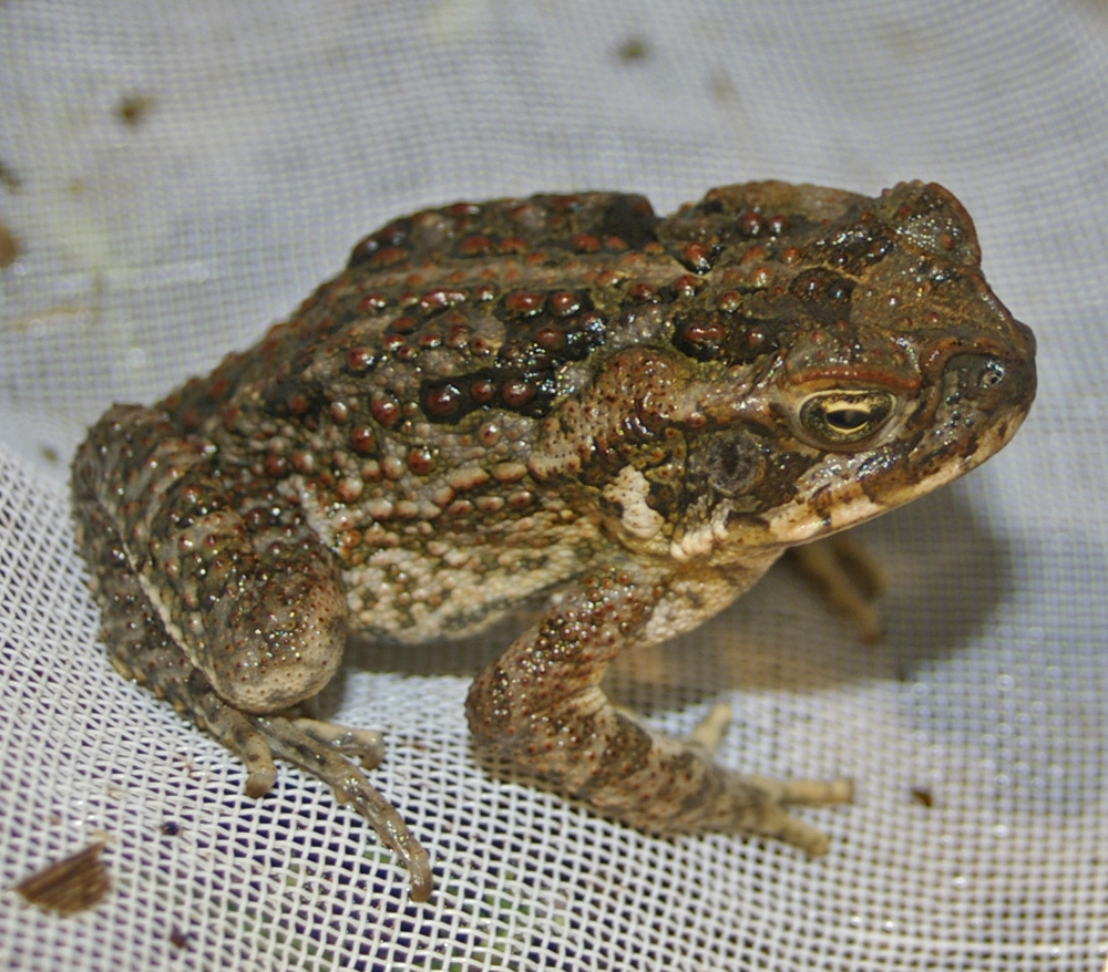 A young Bufo marinus (Cane Toad). Darwin, Northern Territory.